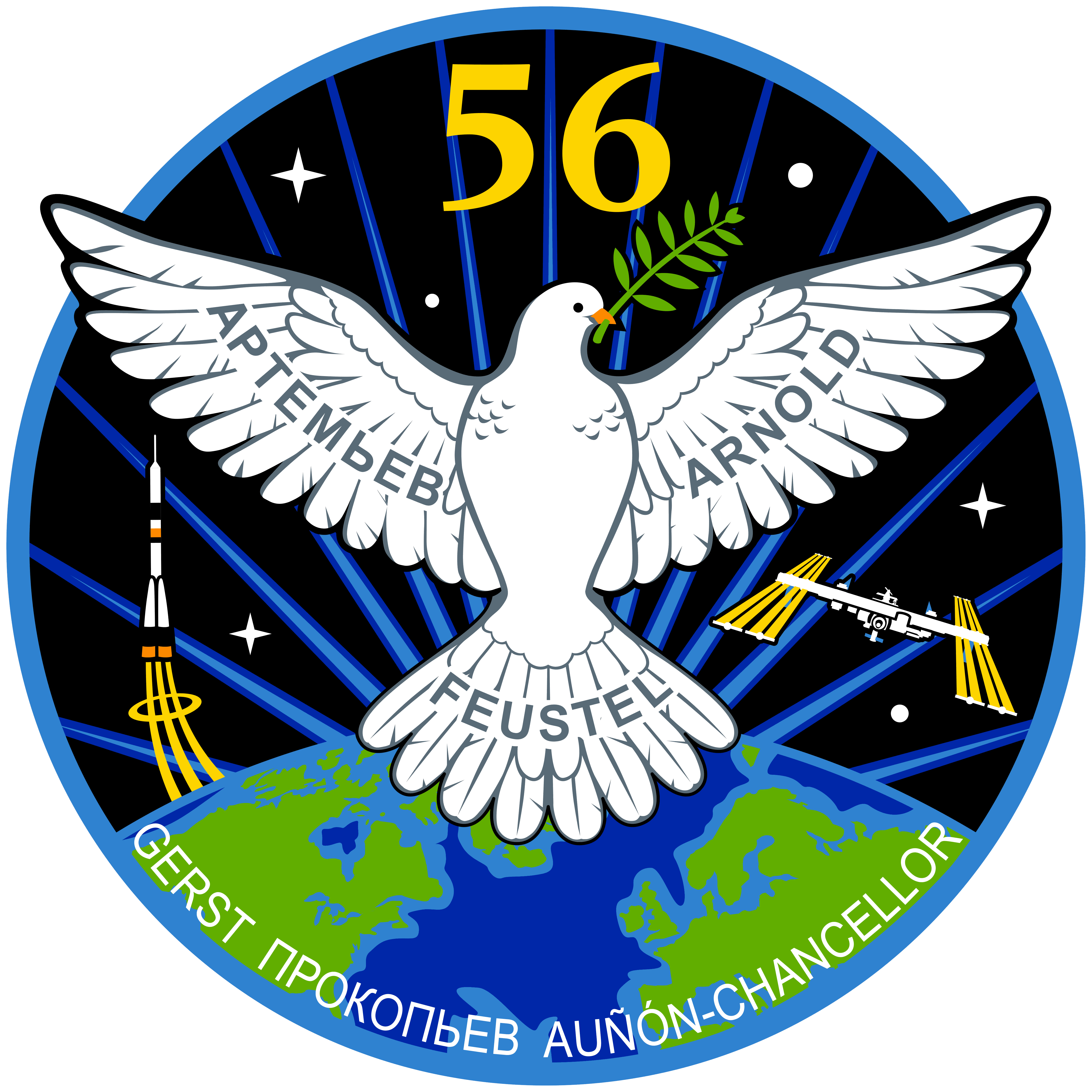 The Expedition 56 crew insignia The Expedition 56 patch portrays a dove carrying an olive branch in its beak. The patch includes of the Soyuz launch vehicle for the crew and the ISS orbital laboratory. The Expedition 56 astronauts' names are displayed on the dove's wings and along the limb of the Earth at the base of the patch. The dove's tail is firmly planted on the Earth limb in order to represent the strong link between our planet and the humans who are sent into the cosmos to carry us beyond the bounds of our only home. The patch theme is best expressed with the Sanskrit word "Shanti," meaning peace, tranquility in one of the oldest languages in history. The patch illustrates our hope for peace and love in the world, and the innate human desire to spread our wings and explore into the future, building on the wisdom of the past, for the betterment of humankind.